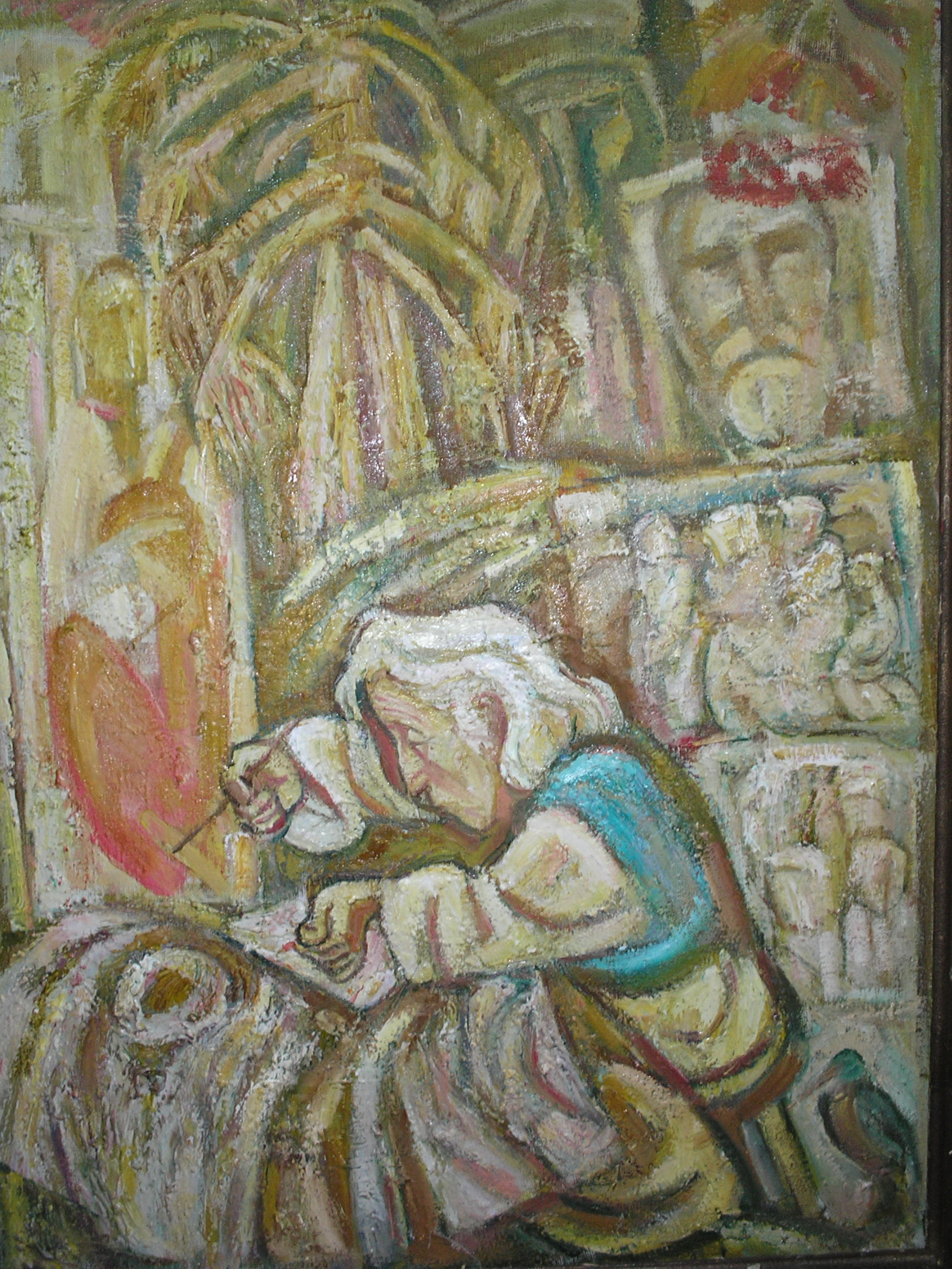 Chornyi Mykhaylo. Painting my Cossack Mamay. 2010. - oil, canvas. - 80x60 cm.